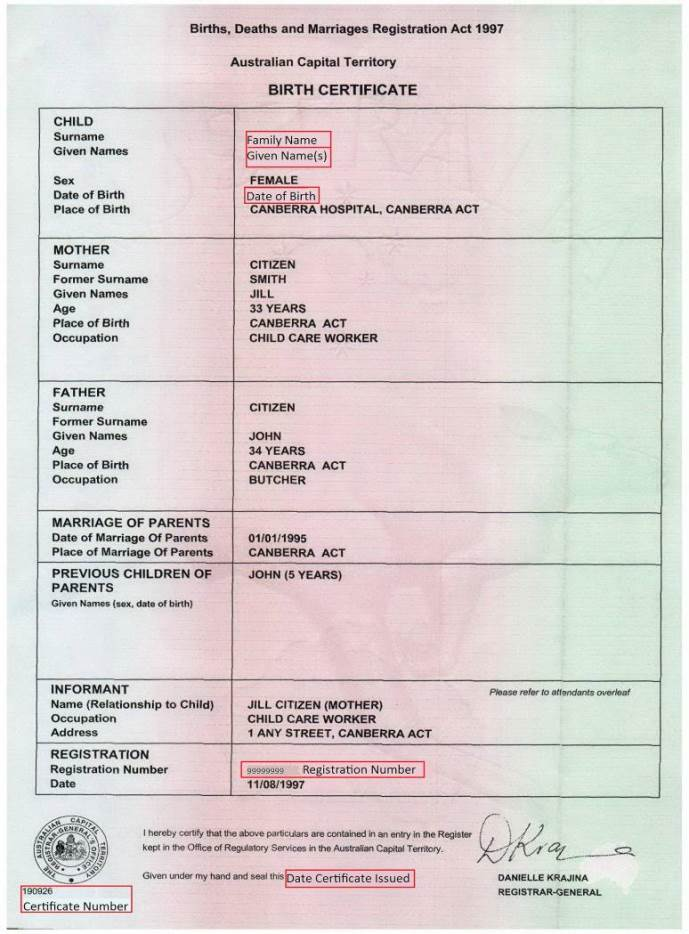 Sample Australian Capital Territory birth certificate, pre 2002 (?) format